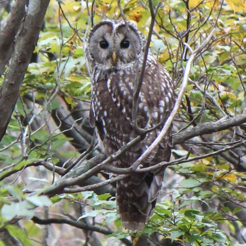 Ural Owl (Strix uralensis) looking back in Mount Chausu, Japan.